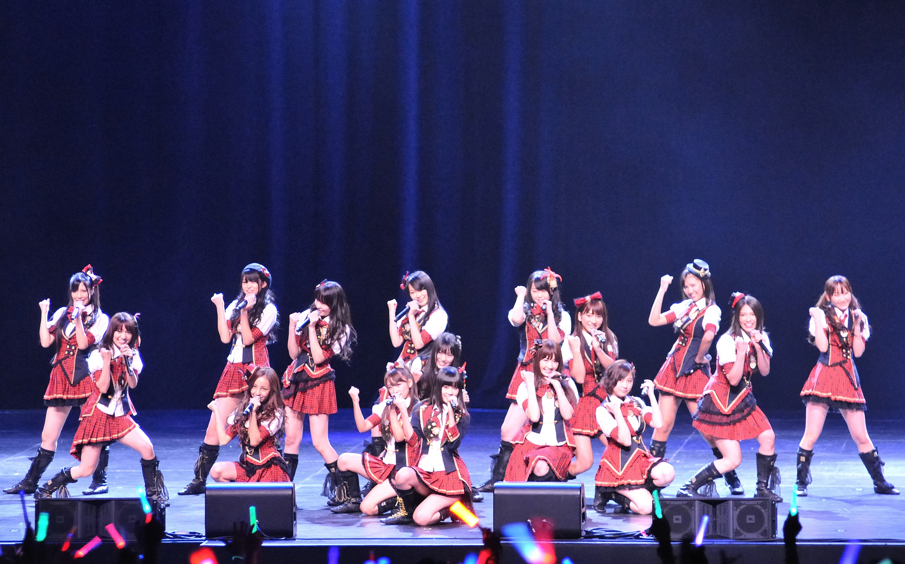 AKB48 members at the J!-ENT LIVE.